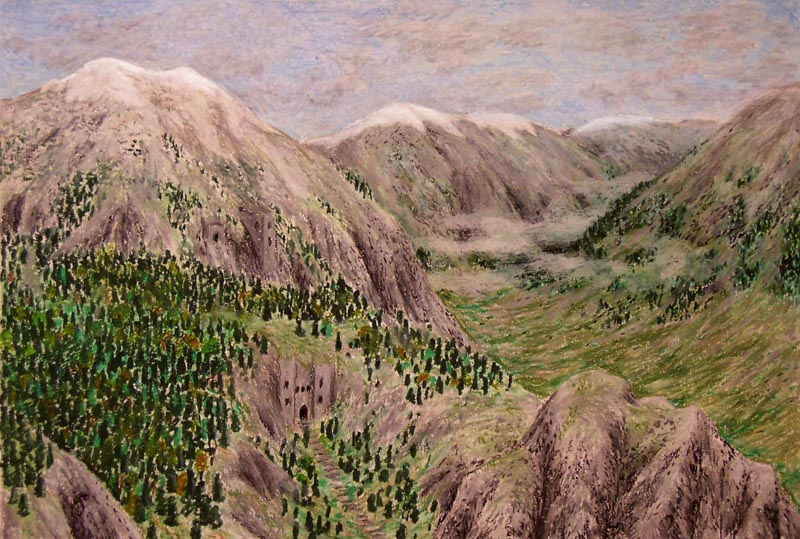 Grey Mountains in the north of Middle-earth